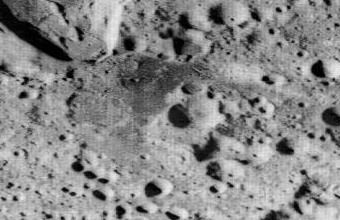 Oblique view of Lacus Luxuriae, on the far side of the moon. North at top.